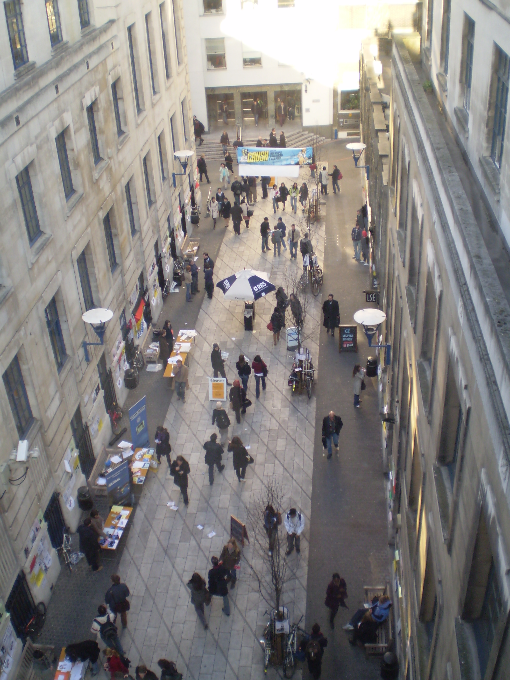 LSE Street from Above